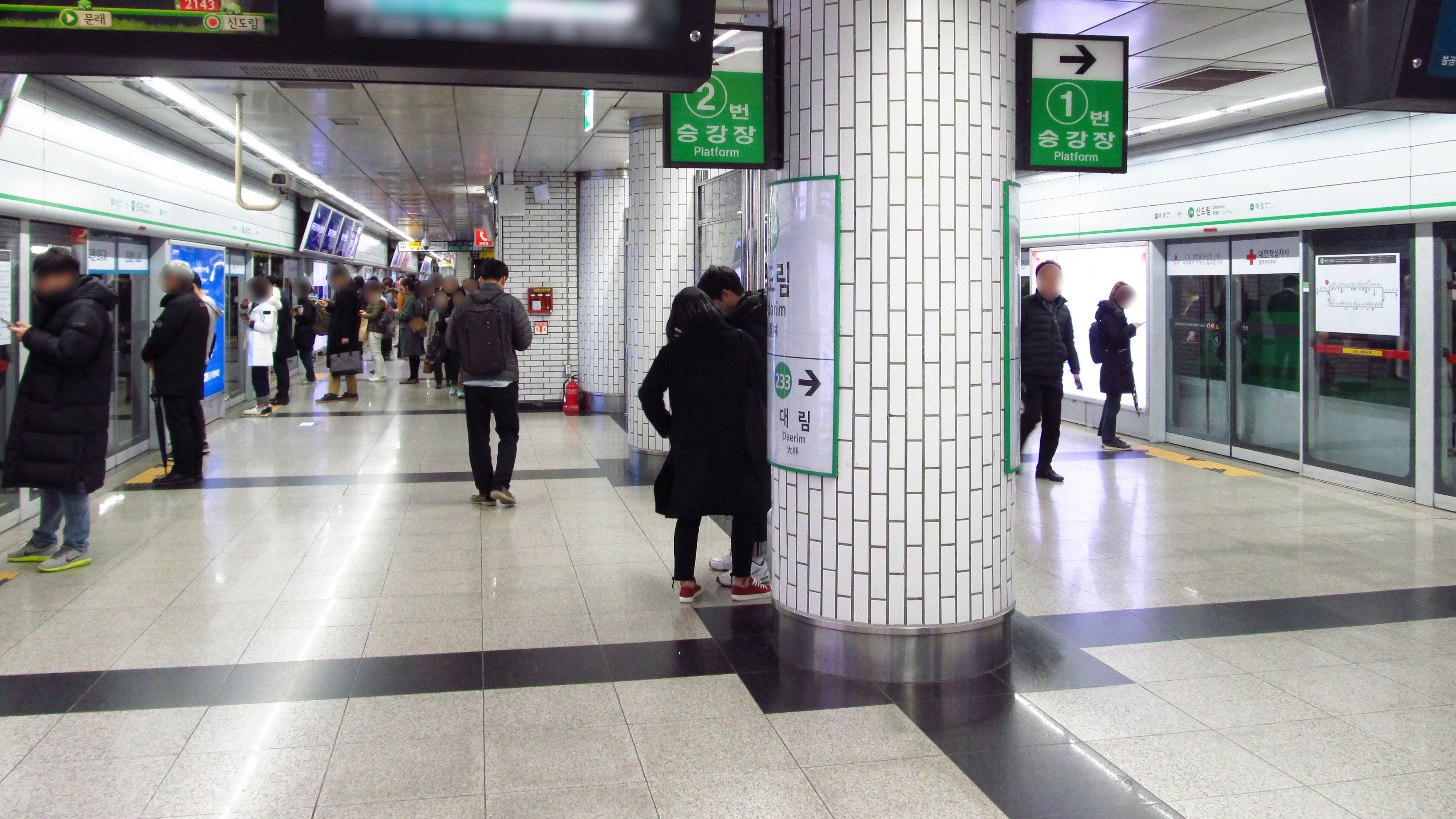 The platform at Sindorim Station on Seoul Subway Line 2 in Guro-gu, Seoul, Republic of Korea(South Korea)